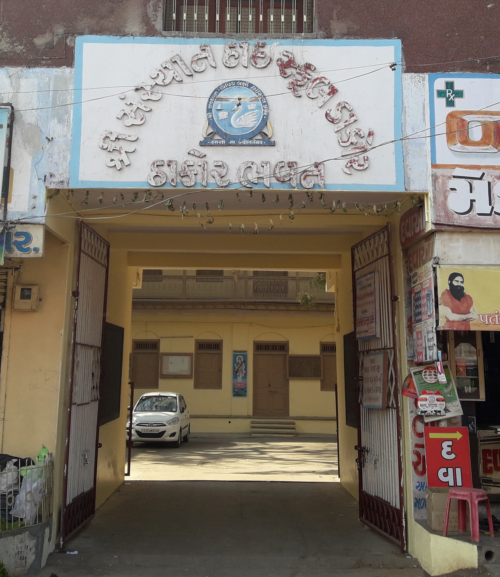 Shree Sansthan High School at Dakor, Gujarat, India. Renowned Gujarati poet Ravji Patel studied here.